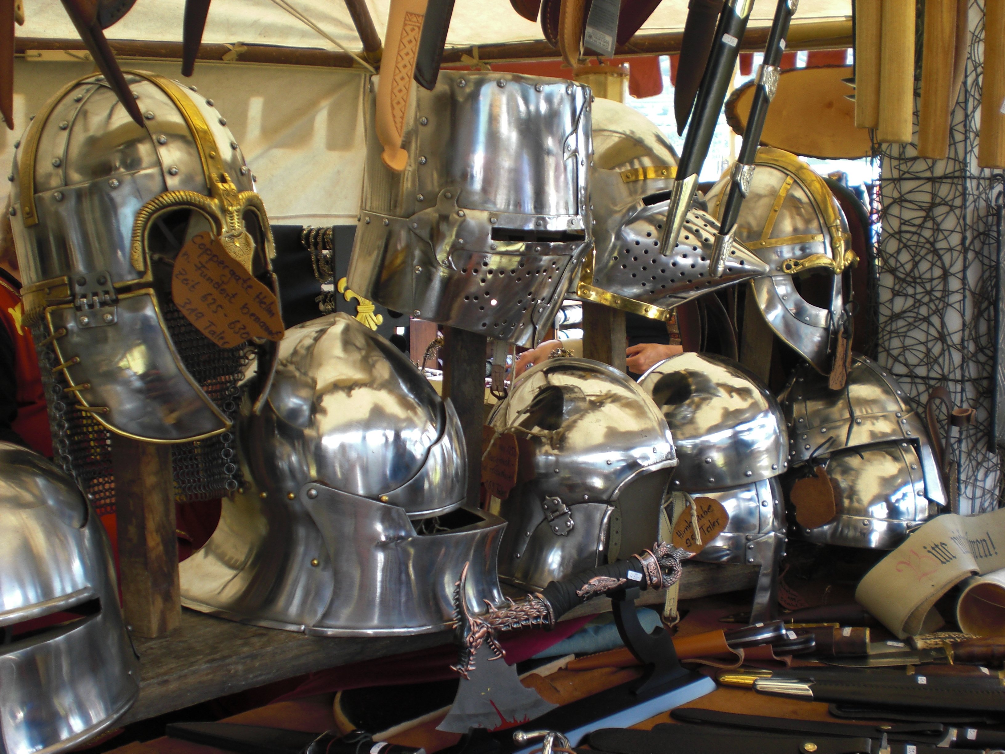 Südtiroler Medieval Games 2010 Schluderns